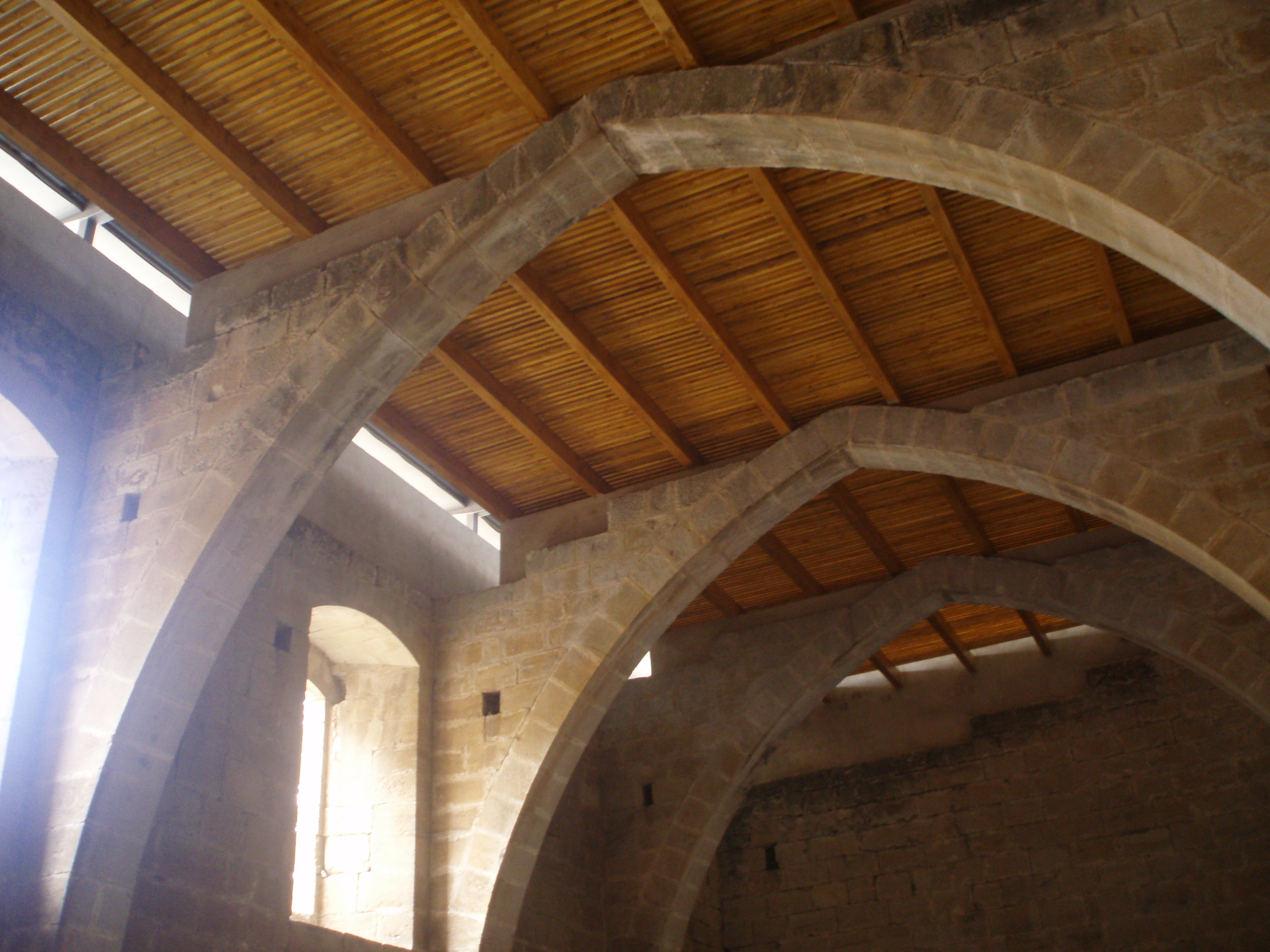 Malda's Castle nowadays.